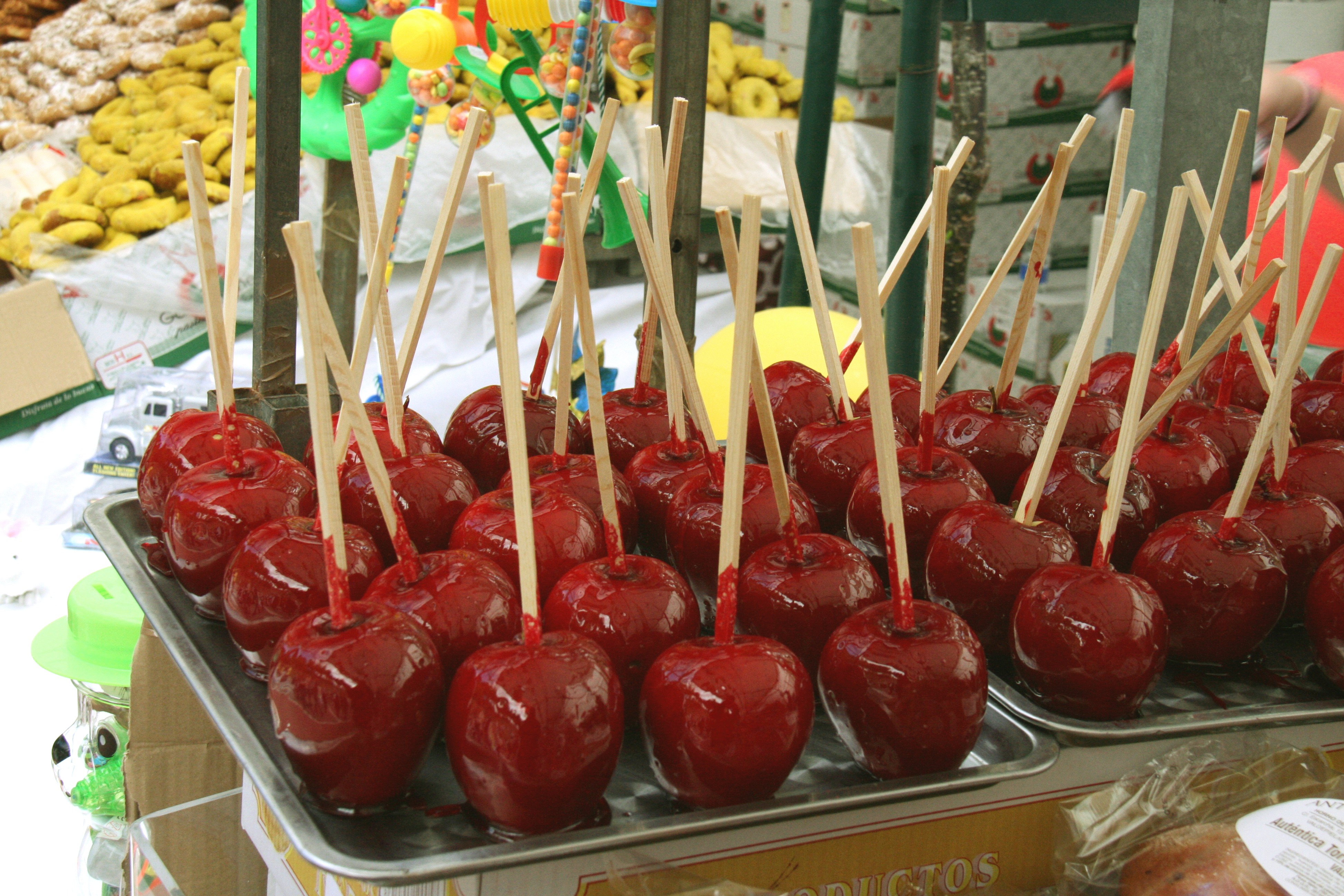 Caramelized apples